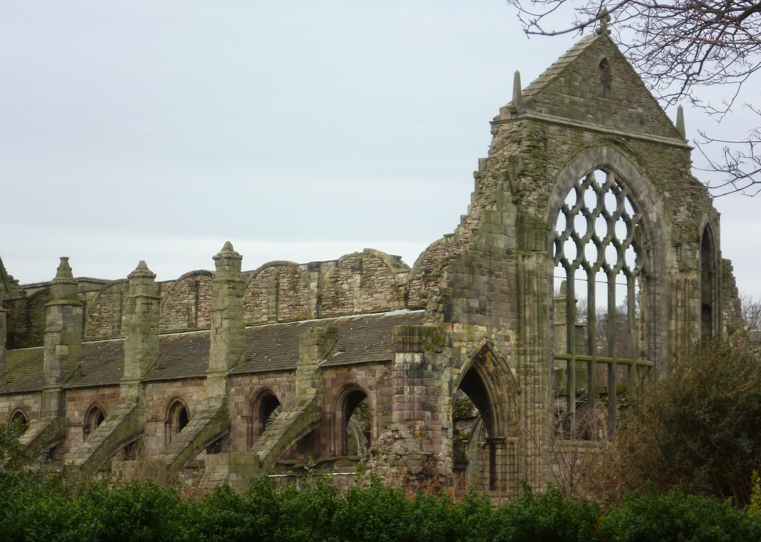 Ruins of Holyrood Abbey, Edinburgh